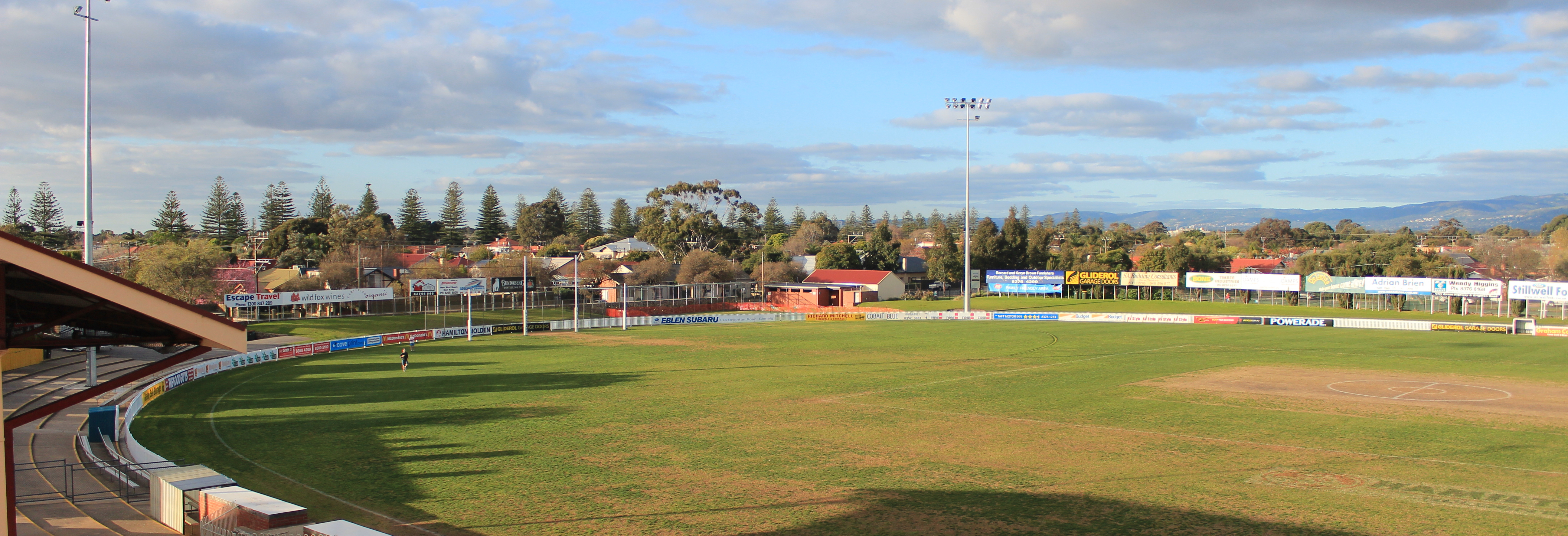 View to the north east from Glenelg Oval overlooking Glenelg East